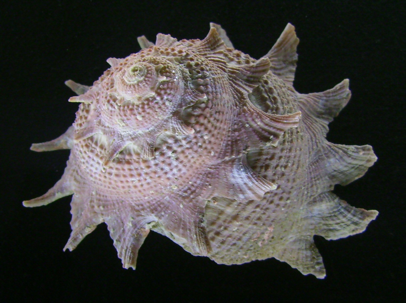 Astraea heliotropium Auckland Museum, New Zealand. This work has been released into the public domain by its author, Graham Bould. This applies worldwide.In some countries this may not be legally possible; if so:Graham Bould grants anyone the right to use this work for any purpose, without any conditions, unless such conditions are required by law.